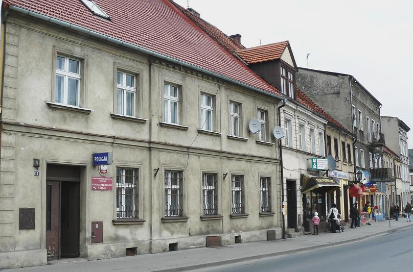 Smigiel - Old Market.